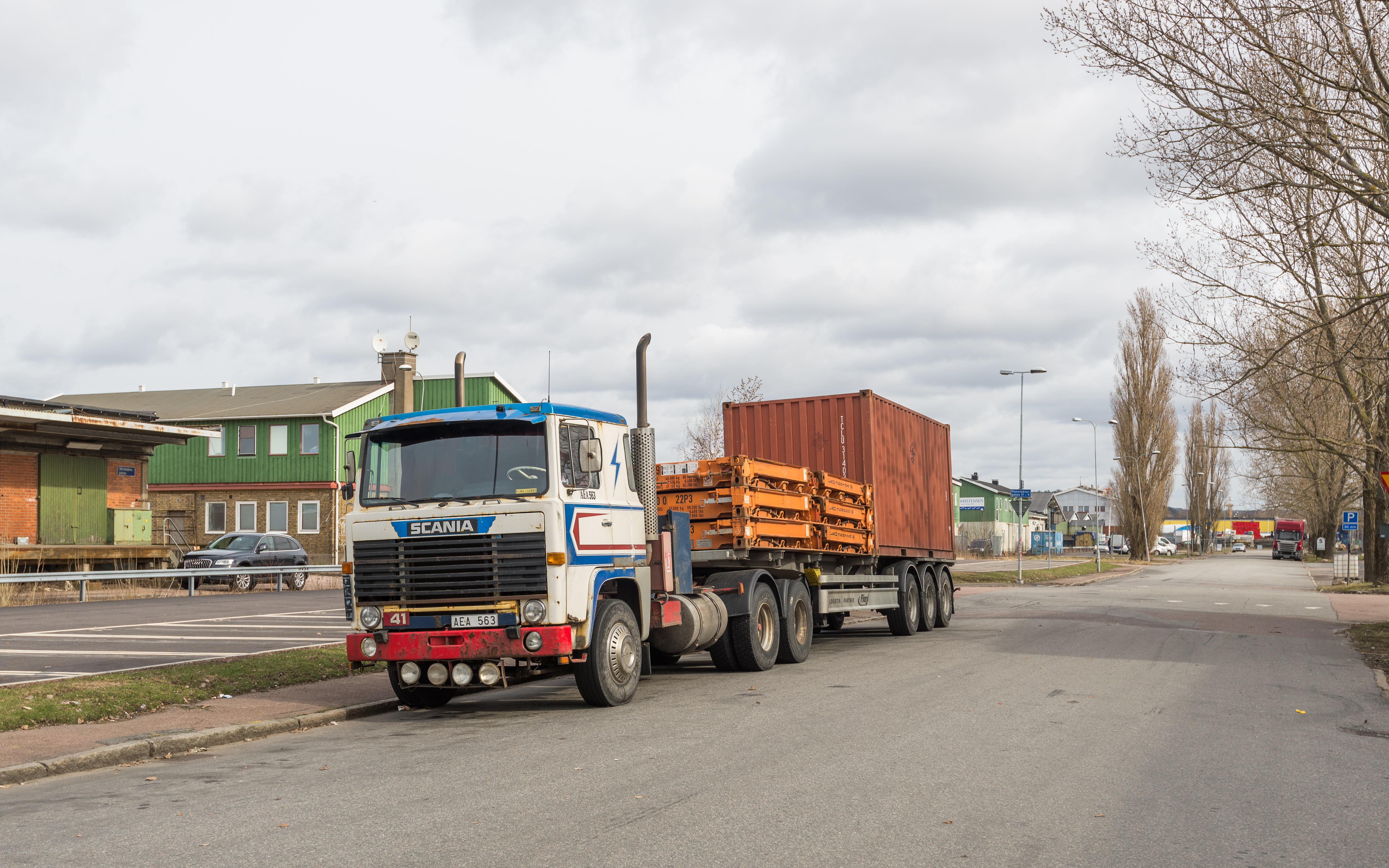 The street Järnmalmsgatan at Ringö, Hisingen (Gothenburg).